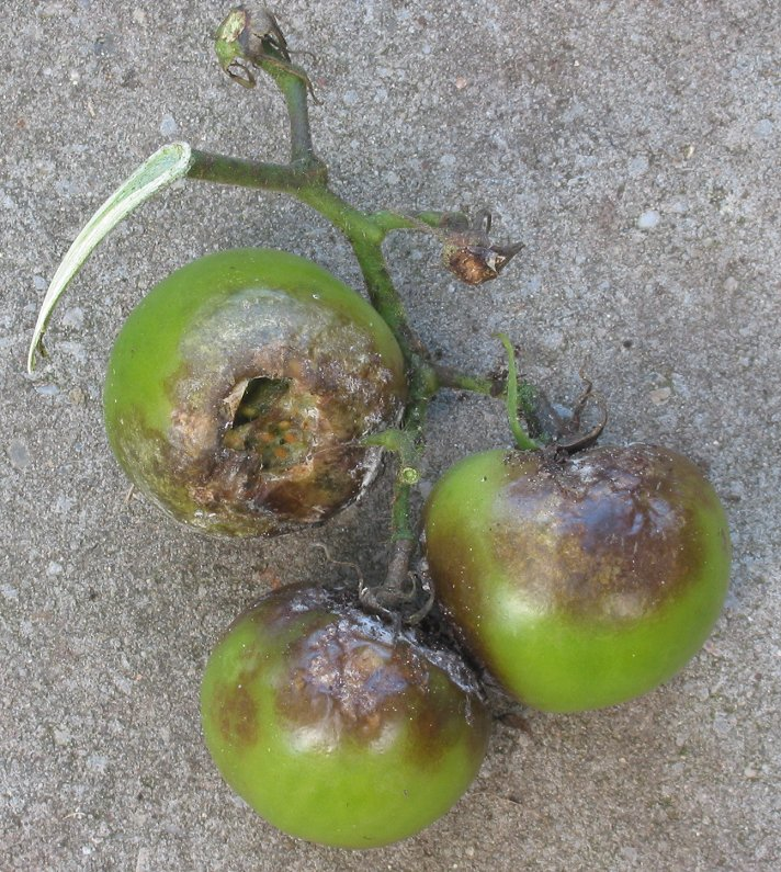 Tomato fruit infected with Phytophthora, mid October.